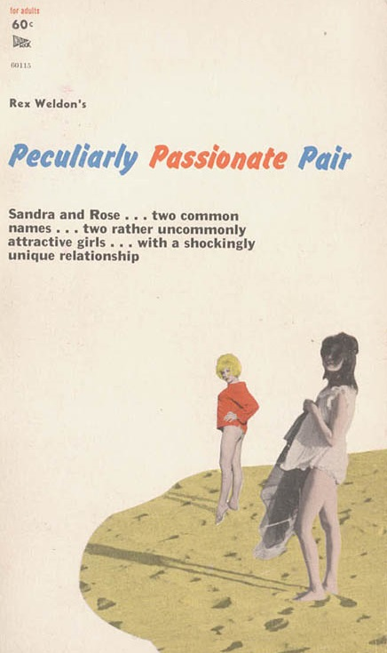 Cover of Peculiarly Passionate Pair by Rex Weldon (Duane W. Rimel), 1963.